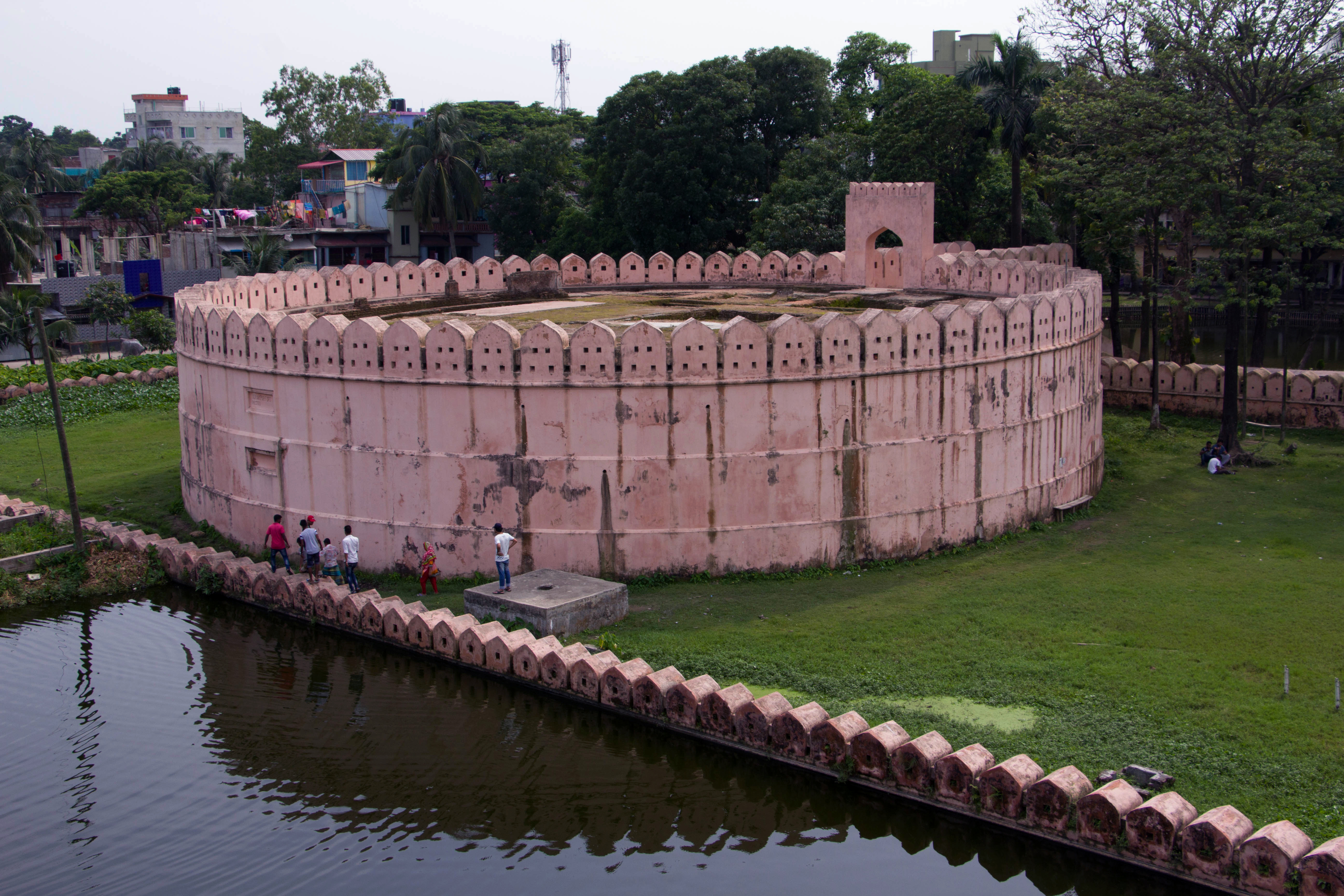 Idrakpur Fort is a river fort situated in Munshiganj, Bangladesh. The fort was built approximately in 1660 A.D. According to a number of historians, the river fort was built by Mir Jumla II, a Subahdar of Bengal under the Mughal Empire, to establish the control of Mughal Empire in Munsiganj, and to defend Dhaka and Narayanganj from the pirates.[1] The fort was a part of the triangular defence strategy for the vulnerable river route, from where the pirates used to attack Dhaka. The strategy was developed by Mir Jumla II with the help of the other two forts in Narayanganj- the Hajiganj Fort and the Sonakanda Fort.